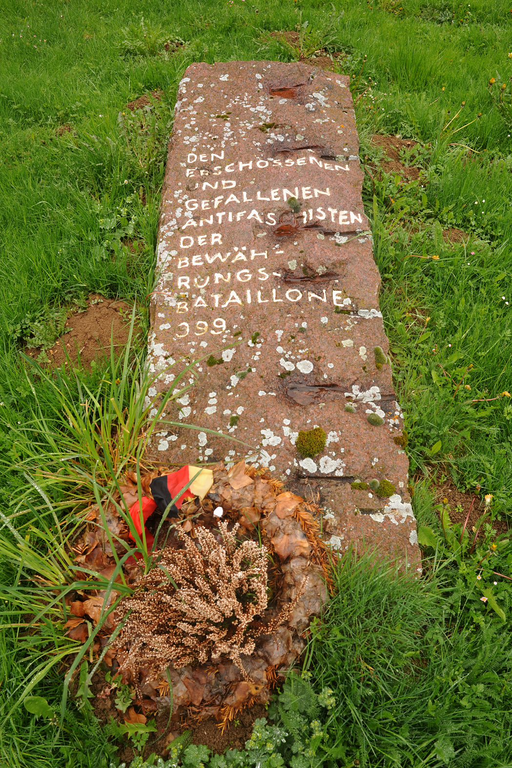 Russian cemetery in Stetten am kalten Markt; Baden-Württemberg, Germany. Cenotaph of the fallen and killed members of the German penal military unit 999 in World War II.